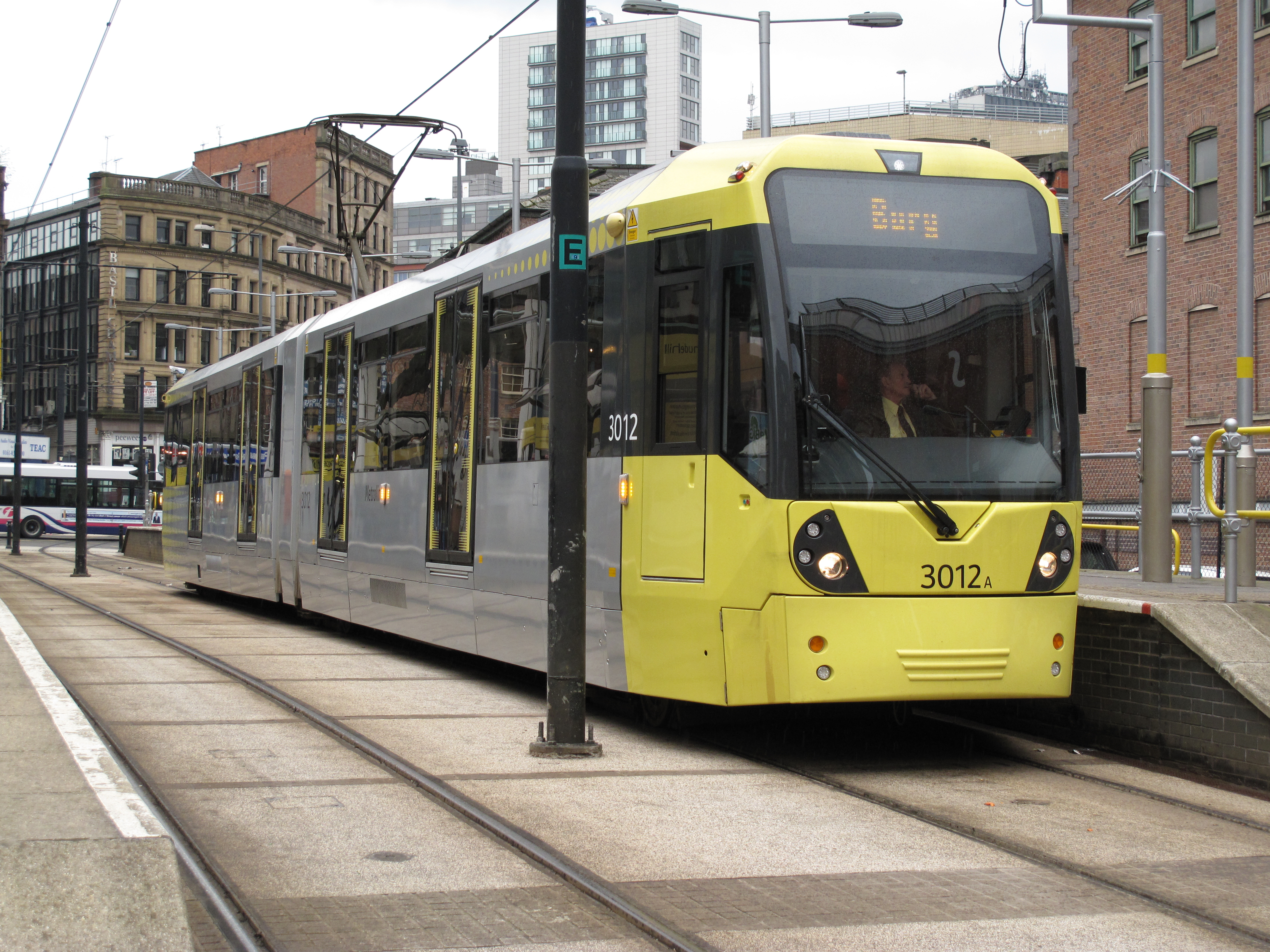 A Manchester Metrolink tram at Shudehill Interchange.